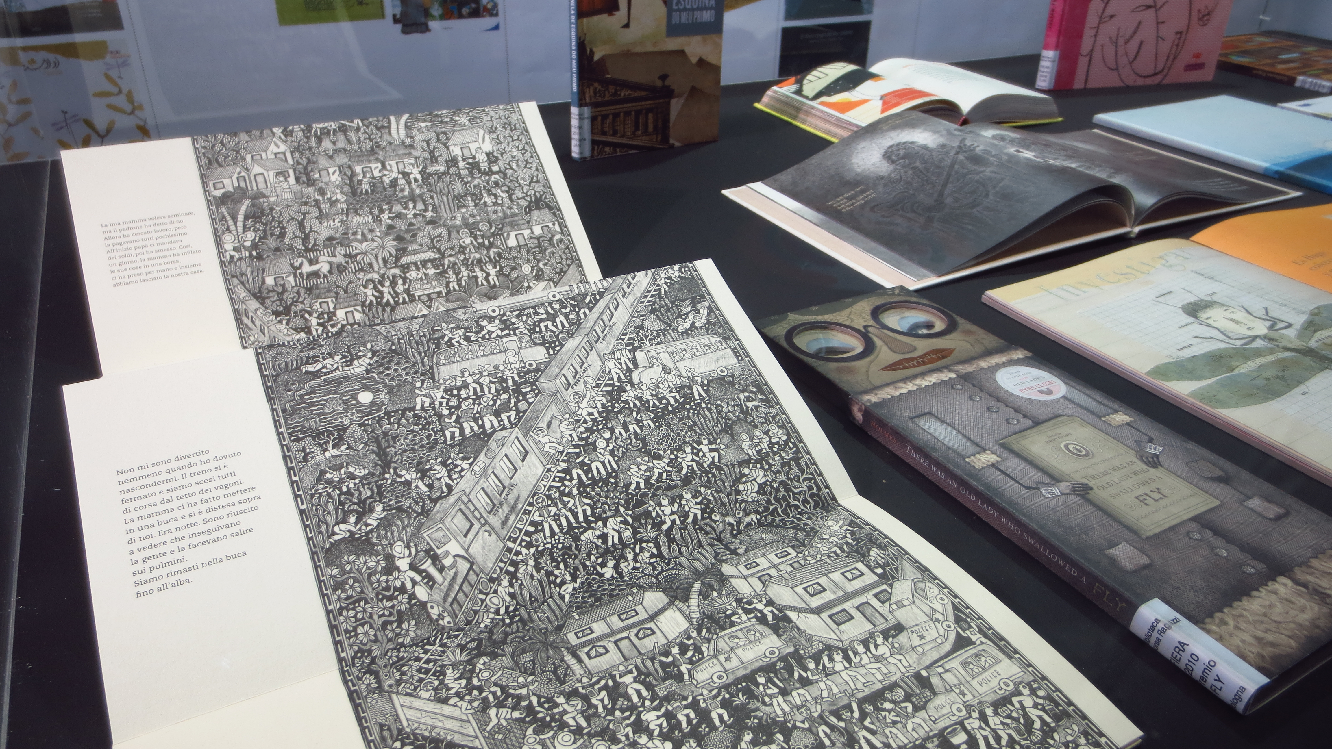 Exhibition "50 Years Bologna Ragazzi Award" at the Bologna Children´s Book Fair with the book MIGRAR by José Manuel Mateo (text) and Javier Martínez Pedro (illustration) on March 30, 2015